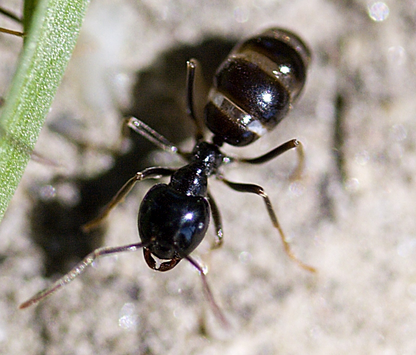 Lasius fulignosus worker